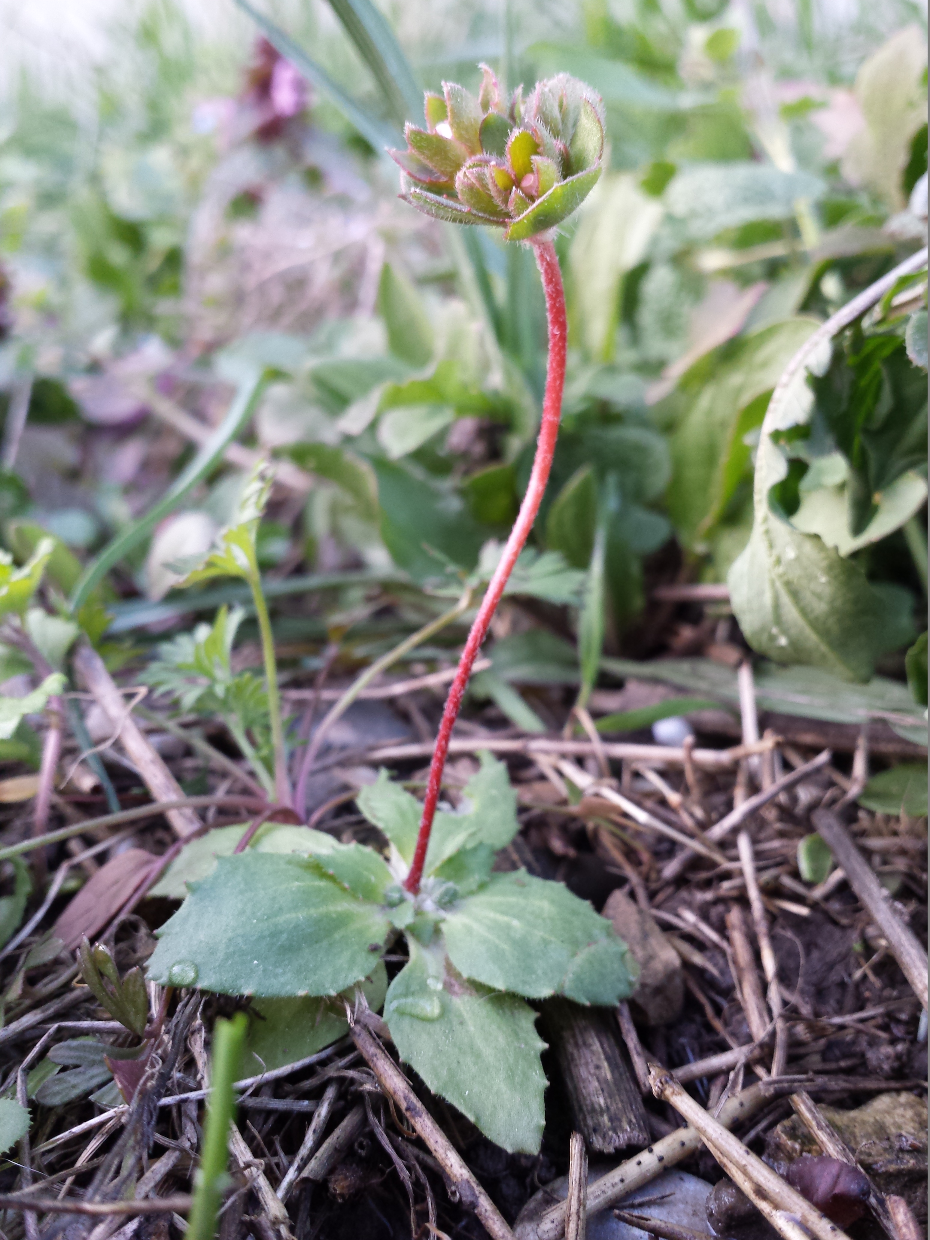 Habitus Taxonym: Androsace maxima ss Fischer et al. EfÖLS 2008 ISBN 978-3-85474-187-9 Location: Sinawastingasse, Vienna-Floridsdorf - ca. 160 m a.s.l. Habitat: slope